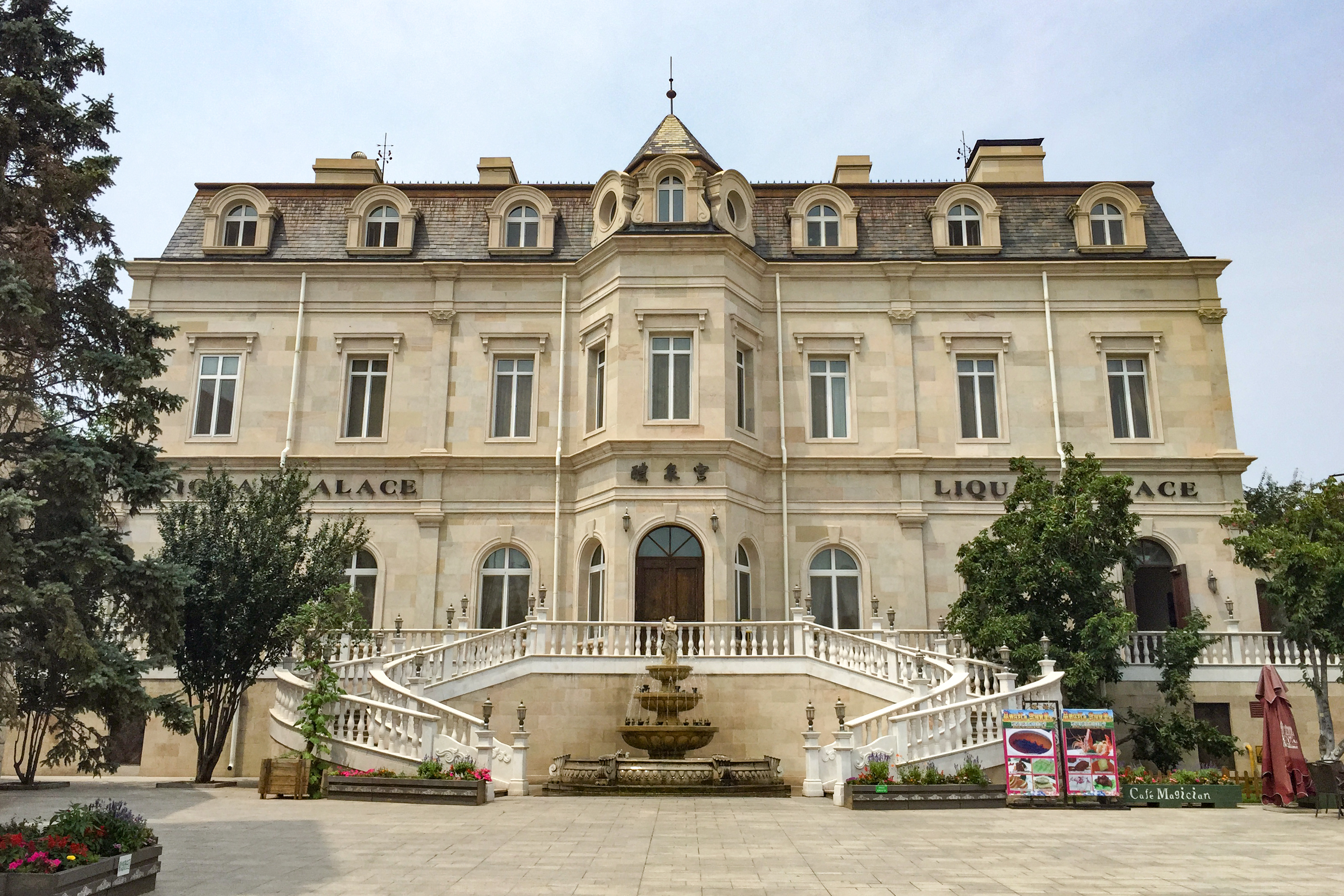 Liquan Palace is a Chinese-style restaurant in AFIP Town, Caijiawa, Jugezhuang, Miyun, Beijing.